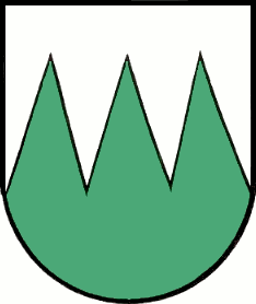 Coat of arms of Category:Hemberg, canton of St. Gallen, Switzerland